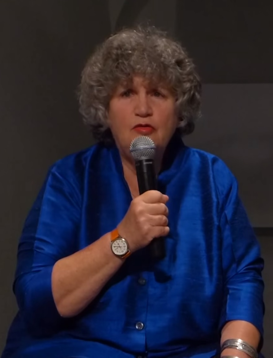 American lesbian writer, historian, and editor Joan Nestle speaking in Ljubljana, Slovenia for the Škuc Gallery, September 27, 2014 Organized by Škuc LL: (Students' Cultural Centre, Lesbian Section)